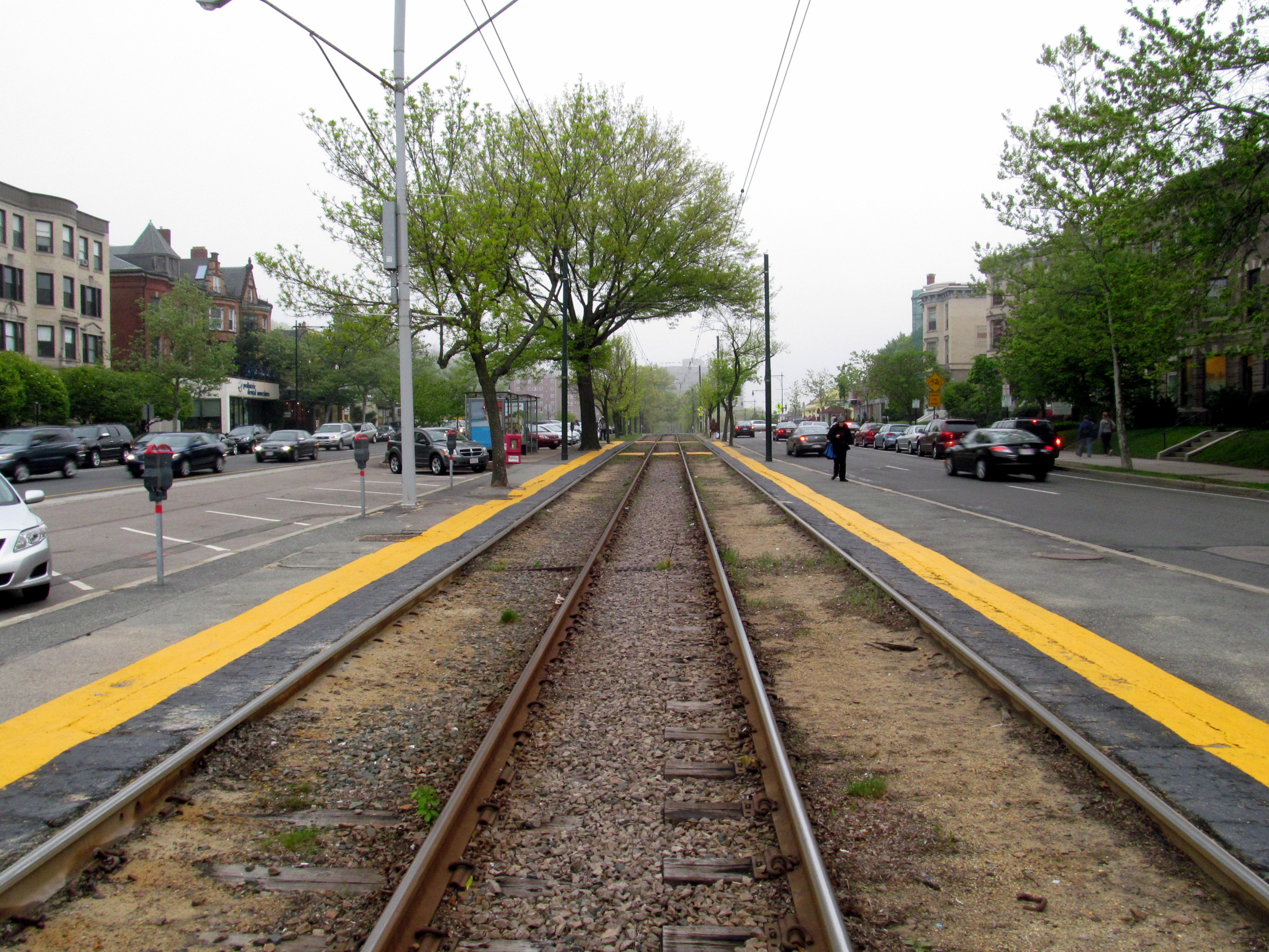 Tappan Street on the Green Line "C" Branch, looking inbound